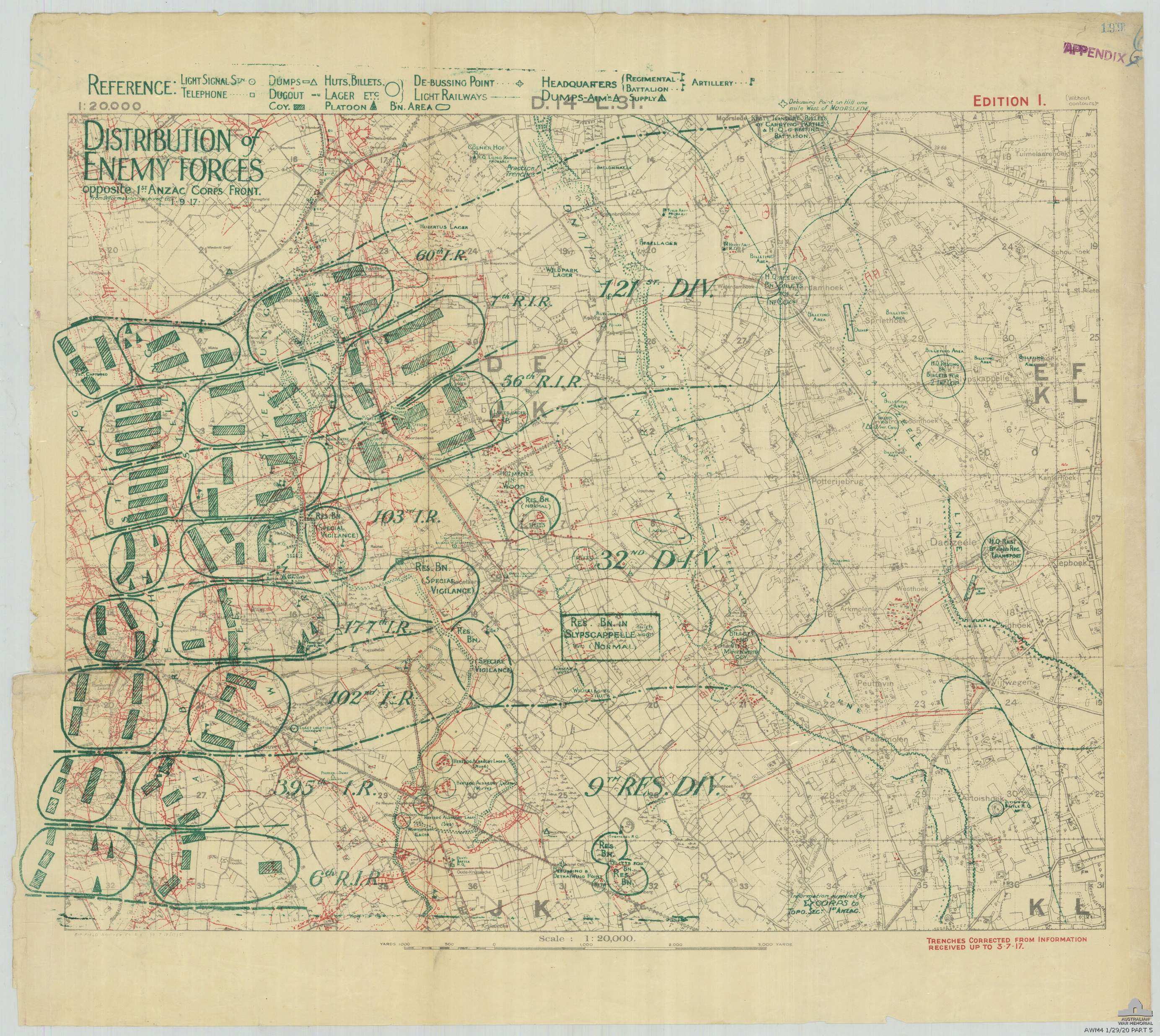 1:20000 scale trench map detailing the disposition of German tropps apposite 1 ANZAC Corps on 1.9.17.